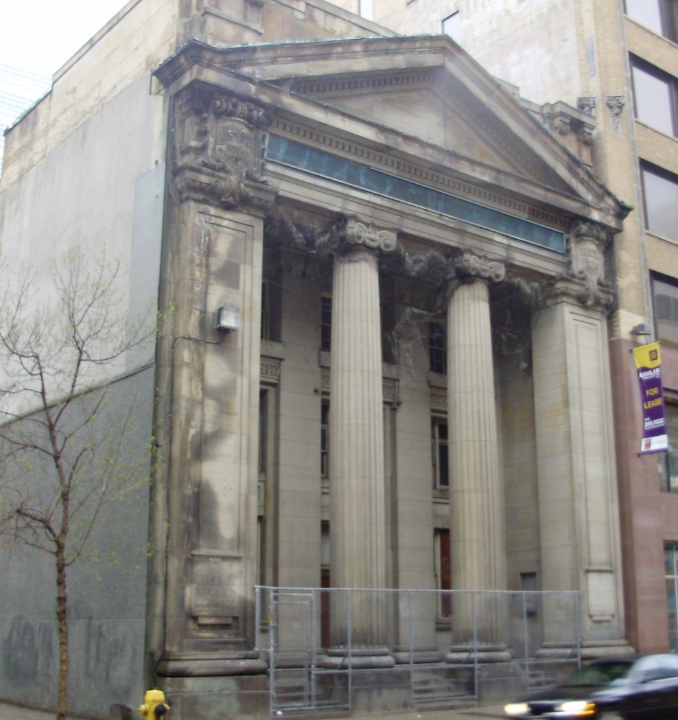 The historic building located at 197 Yonge Street in Toronto, Ontario.